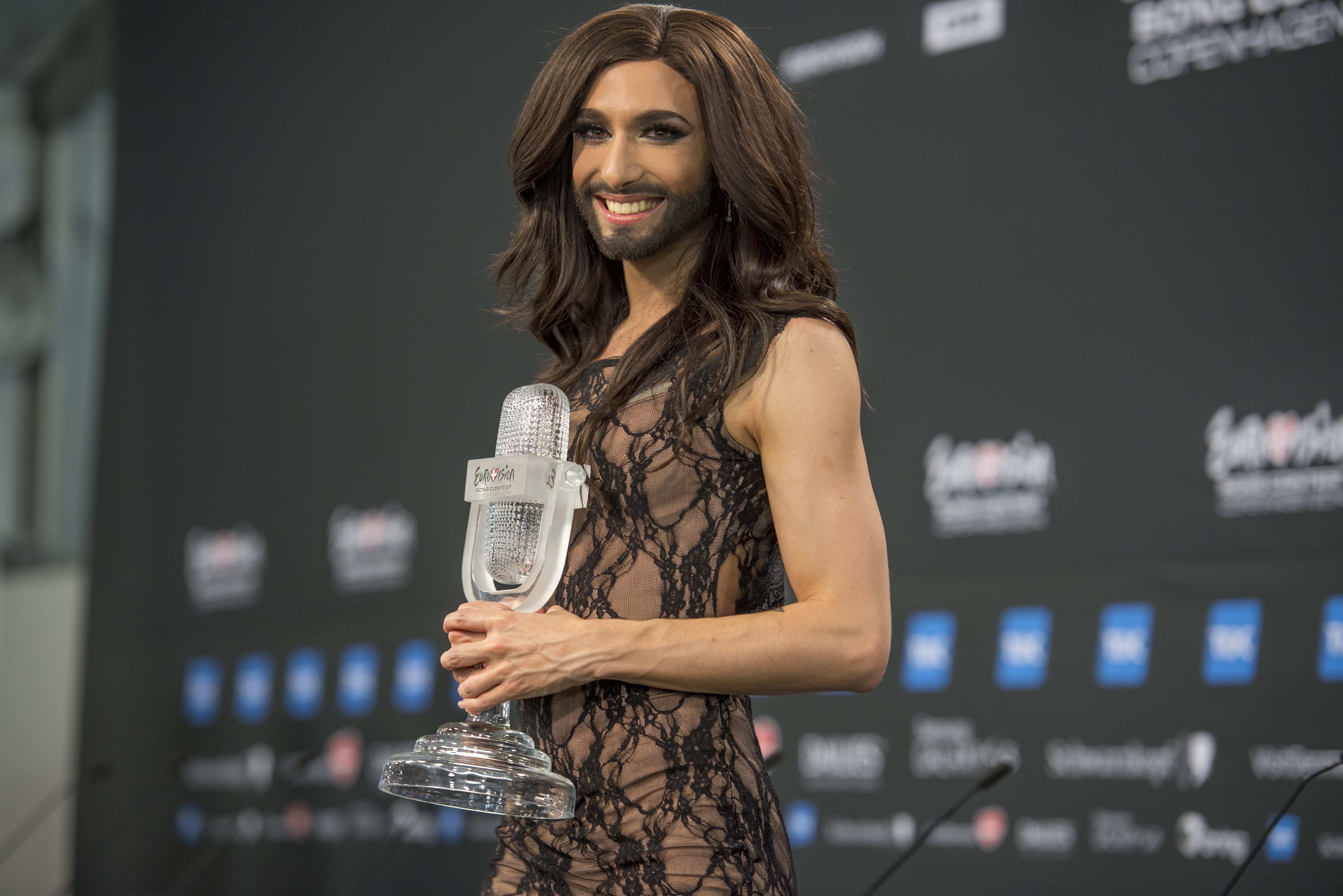 Conchita Wurst at the winners press conference, right after winning the Eurovision Song Contest 2014 Copenhagen. (Help translate this text)